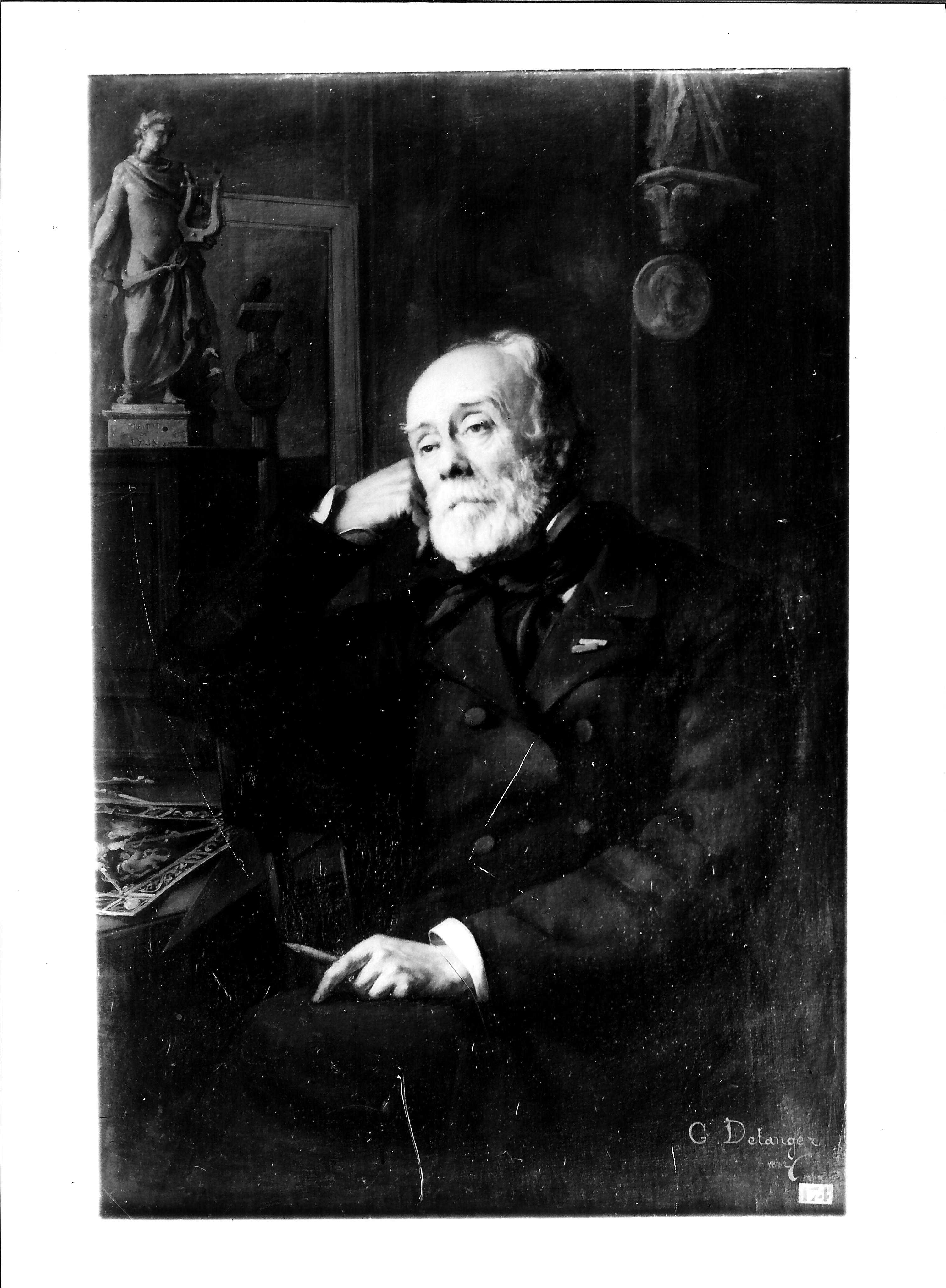 Portrait of Antoine-Marie Chenavard